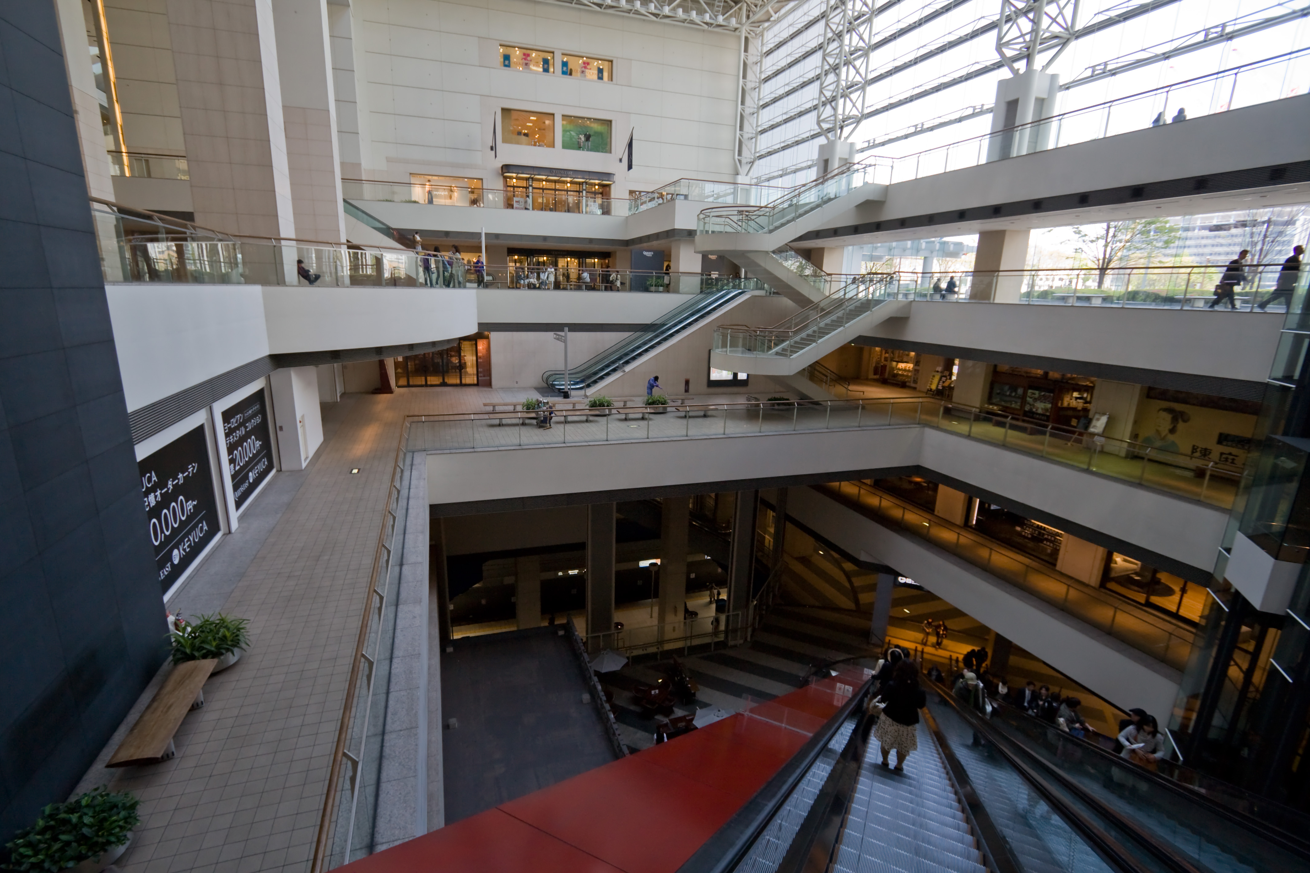 Minatomirai Station from Queen's Square